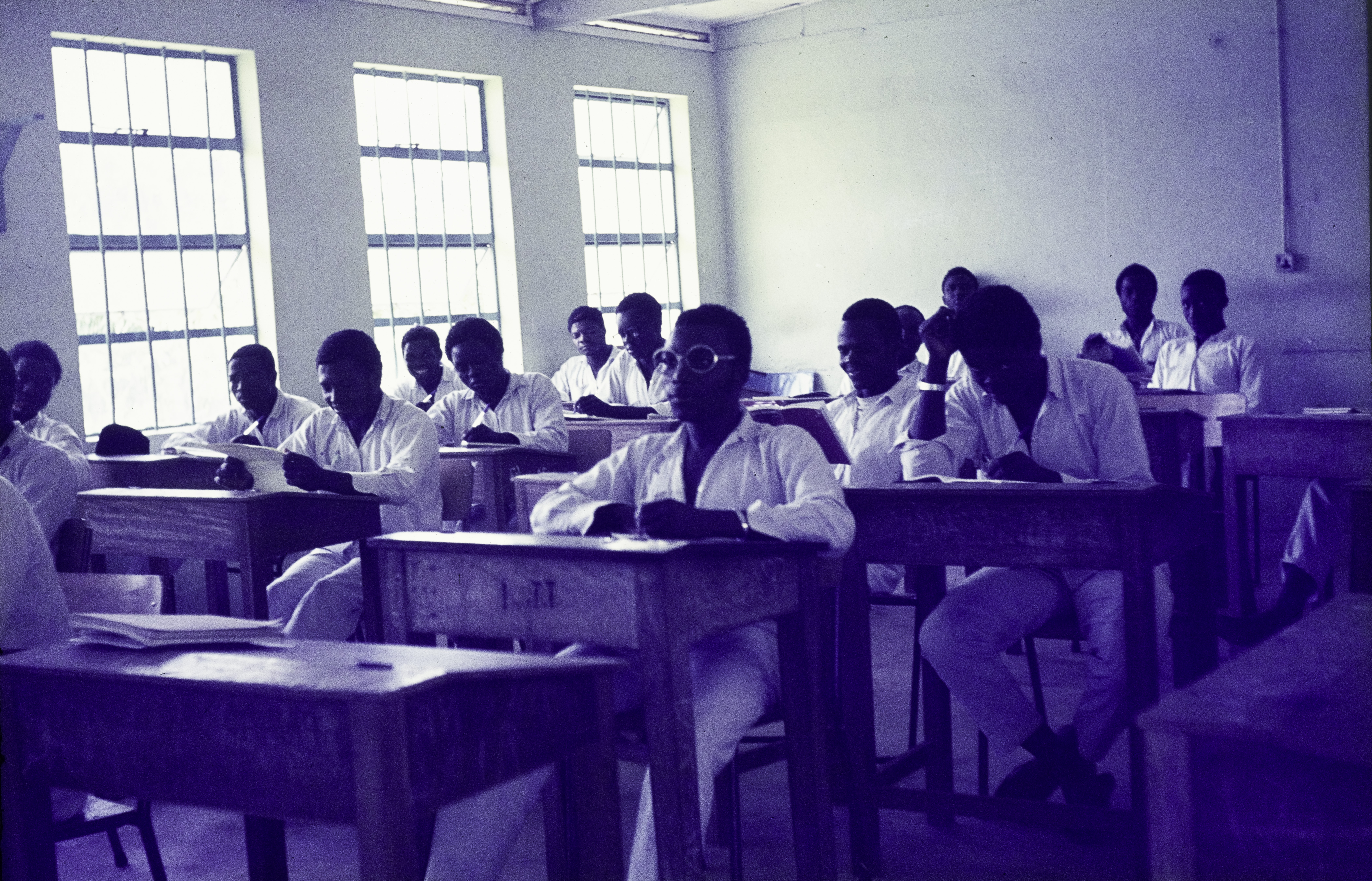 Toro Teachers College. Training teachers (around 20 - 22 years old) during a history lesson in a classroom.